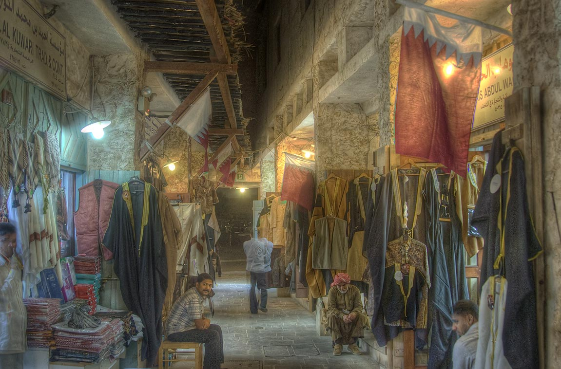 Embroidered dresses on display in Souq Waqif, Doha, Qatar.